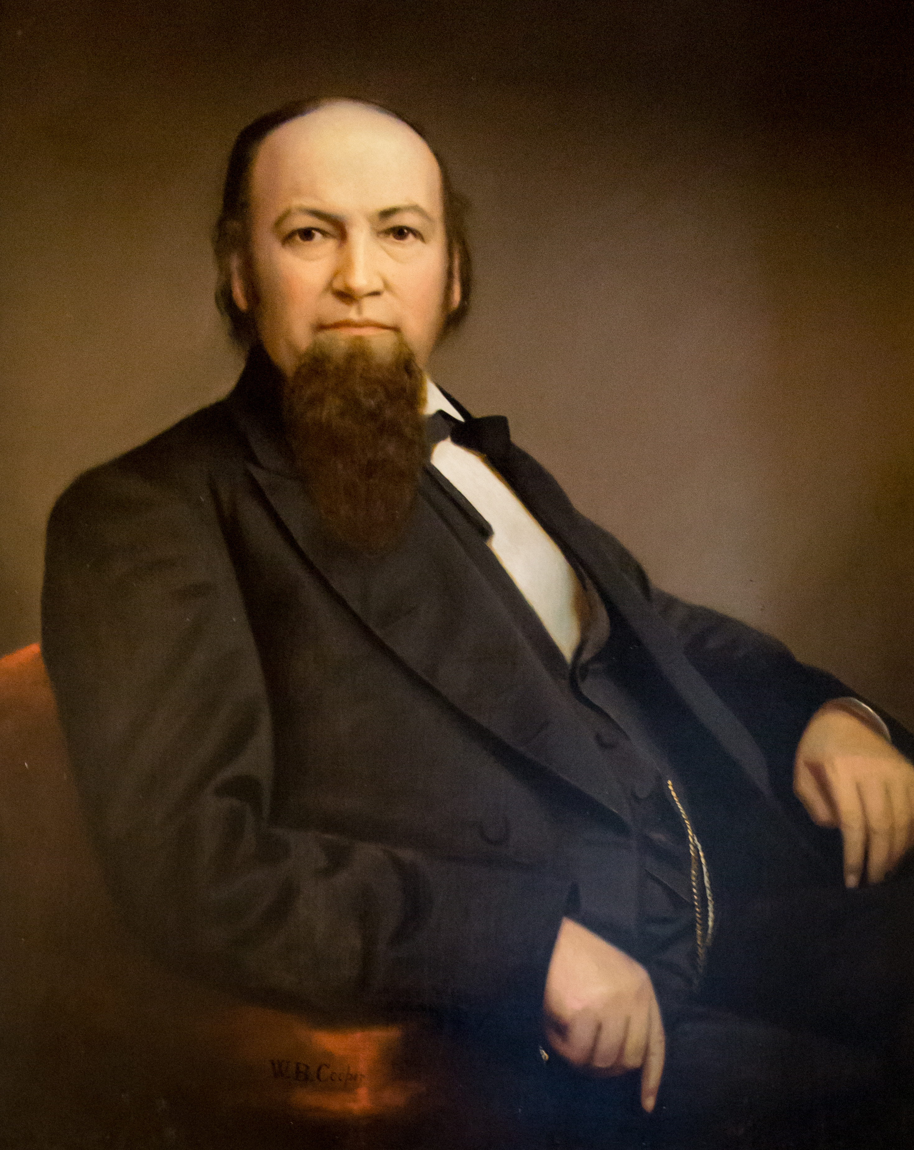 Albert Smith Marks, Governor of Tennessee. Tennessee State Capitol, Nashville, TN.